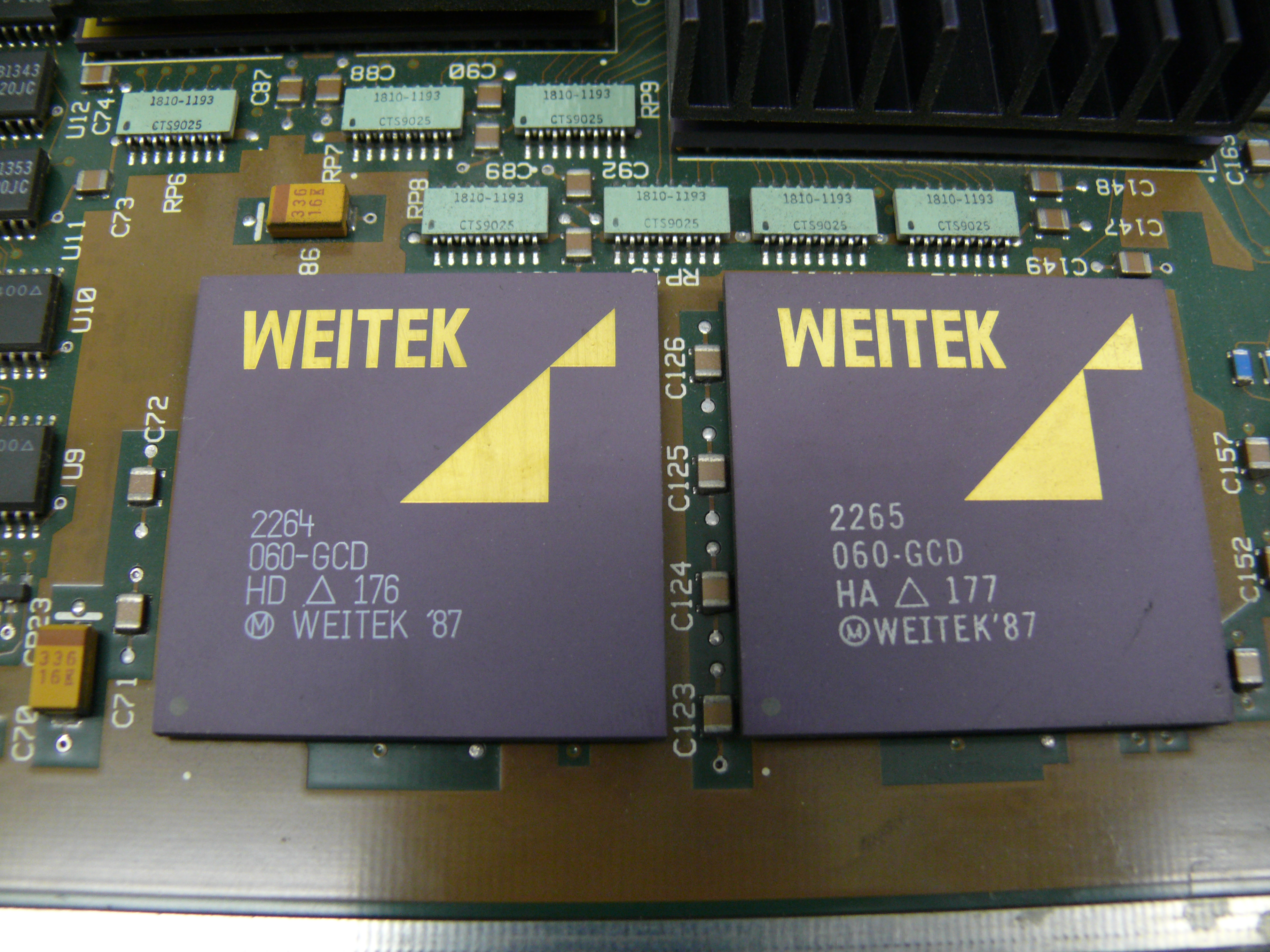 Hewlett-Packard HP9000 PA-RISC NS-2 CPU - 32 Bit - 32 MHz - 183000 FETs - single chip NMOS-III PA-RISC CPU with 7 support chips - HP Part Number: A1027-26510 - two WEITEK math chips